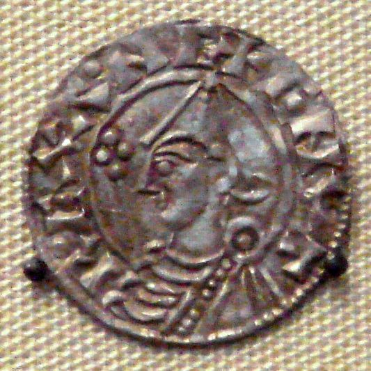 Cnut_the_Great_Obverse